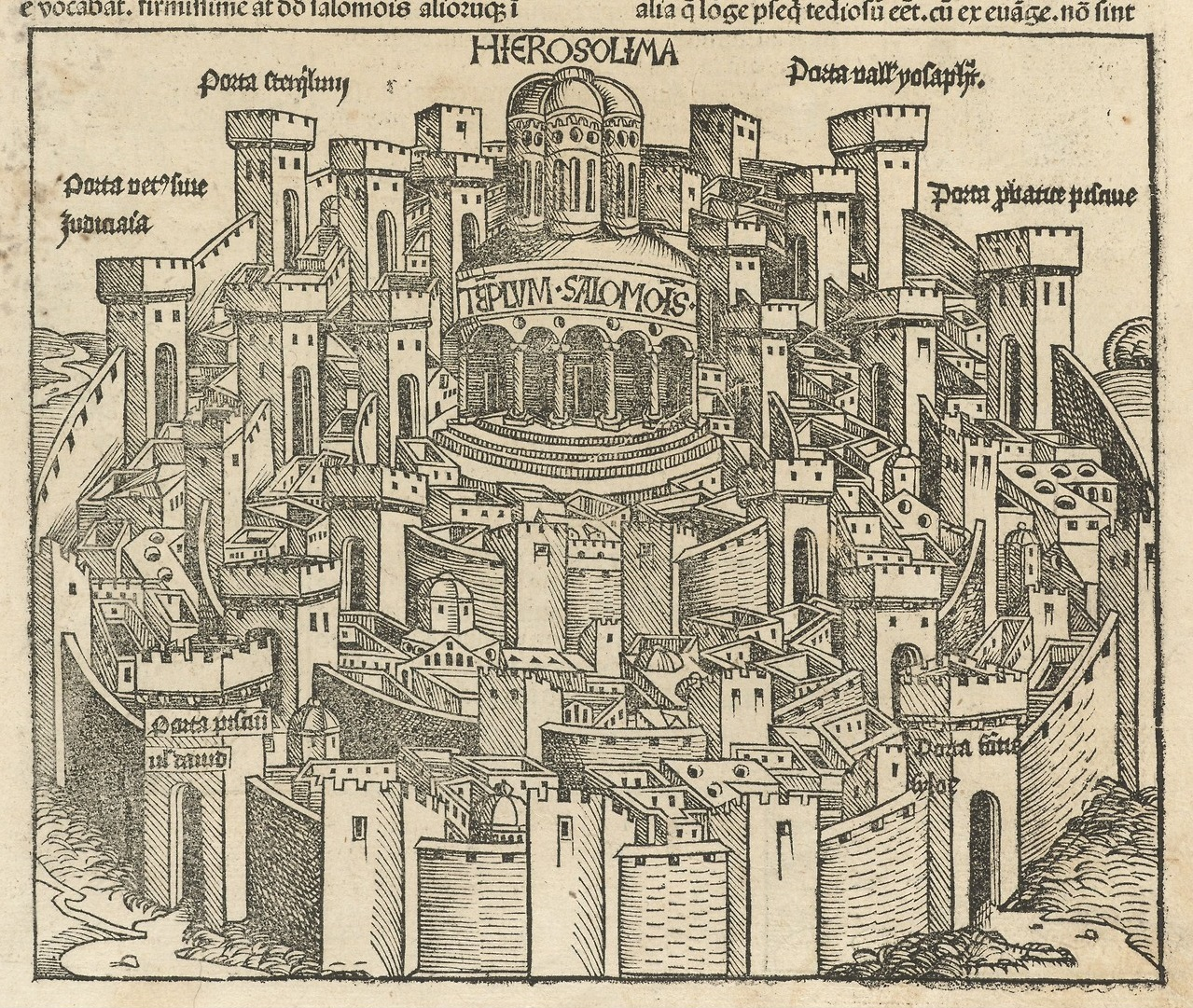 Illustration depicting Hierosolima (Jerusalem) from Registrum huius operis Libri cronicarum (Nuremberg Chronicle), 1493, by Hartmann Schedel (1440-1514).